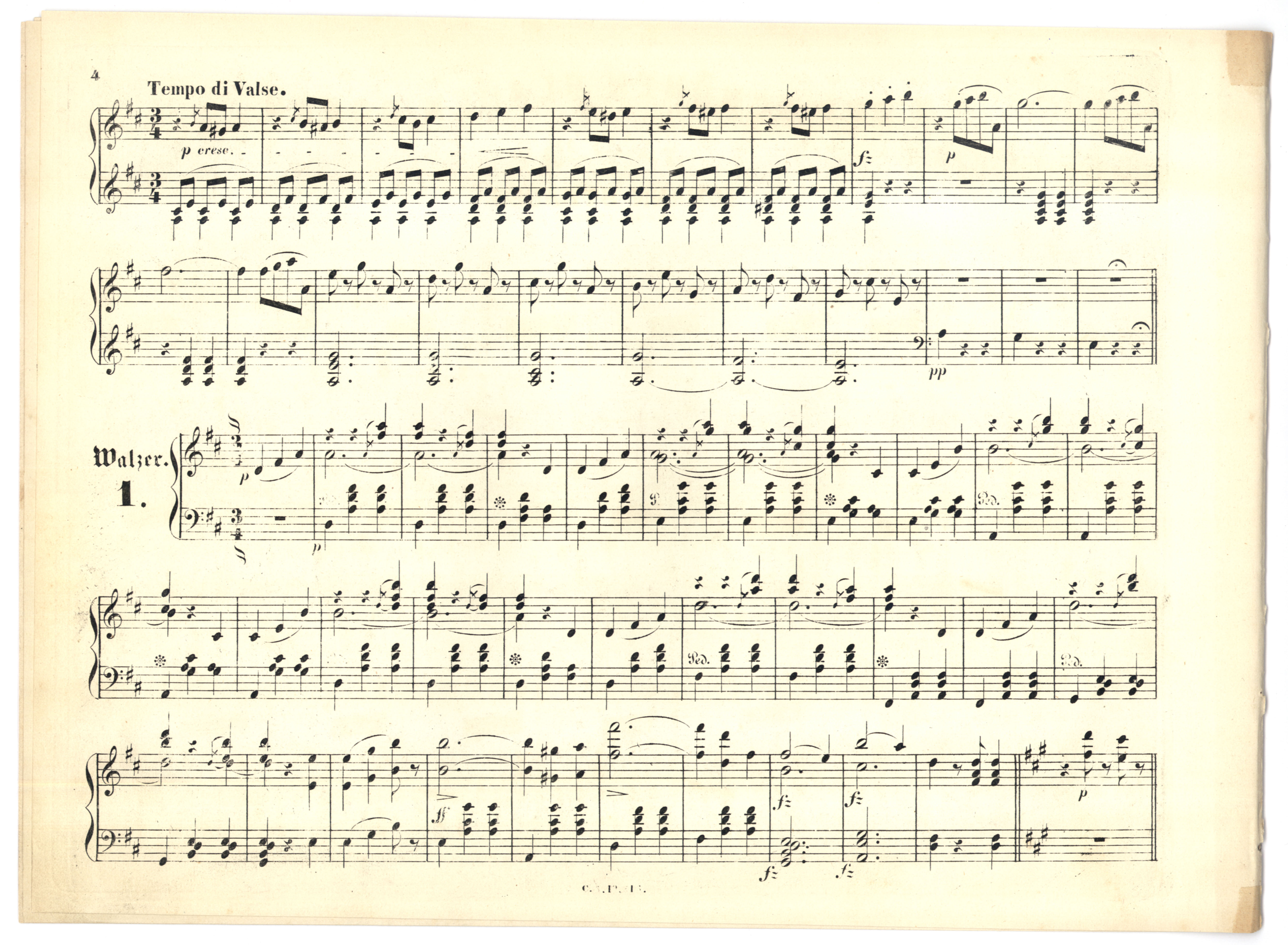 Johann Strauss II. The Blue Danube, 1st ed. by Carl Anton Spina